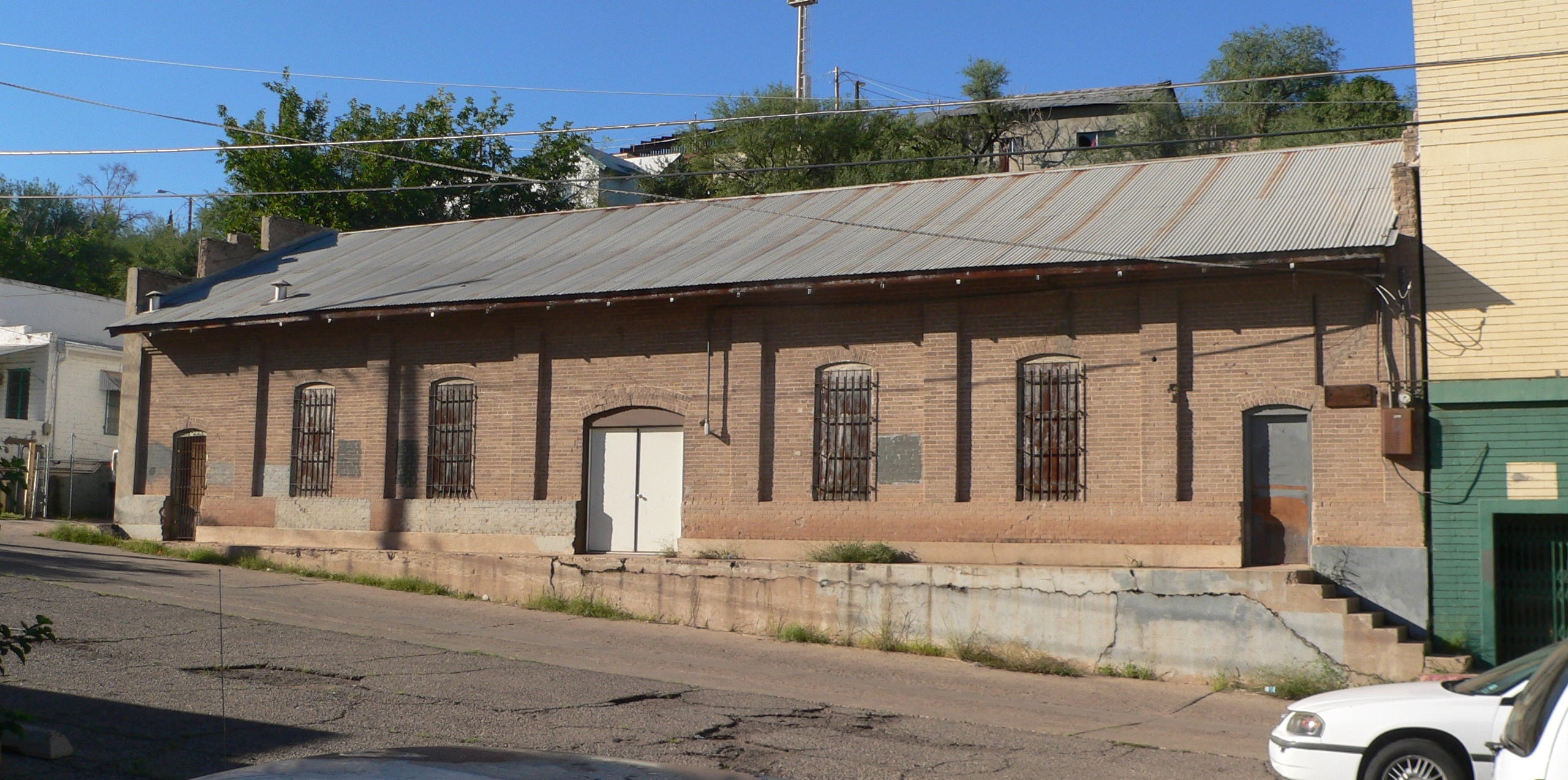 Nogales Steam Laundry building, located on East Street in Nogales, Arizona.